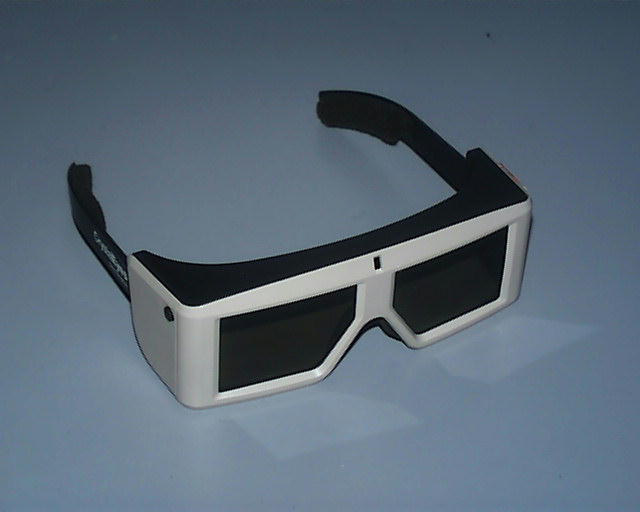 A pair of CrystalEyes liquid crystal shutter glasses (as used in the CAVE virtual reality system)